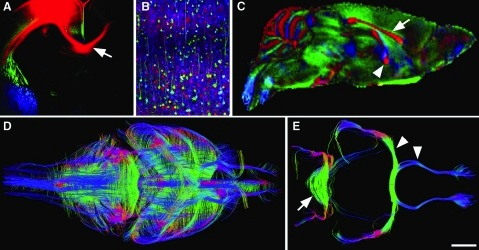 Advances in techniques for labeling axon tracts and circuits. (A) Carbocyanine dye labeling in the developing brain. DiI-labeled callosal axons are shown in red (arrow in A). Labeling was performed on fixed embryonic day 17 mouse brain. (image courtesy of Dr Celine Plachez, University of Maryland). (B) Labeling of neurons in the brain of a “brainbow” mouse. Different neurons are visualized with different hues of color generated by Cre/loxP recombination in transgenic mice (image courtesy of Dr Jeff Lichtman and Dr Tamily Weissman, Harvard University). (C) Diffusion-weighted (30 directions) magnetic resonance image acquired at 16.4 Tesla—colormap demonstrating commissural tracts in a midsagittal view. Based on their orientation, commissural fibers have been color-coded in red, including the corpus callosum (arrow in C) and anterior commissure (arrowhead in C). (D and E) are tractography images of high angular resolution imaging (HARDI/q-ball). In D, regions of interest (ROI) were selected across the brain, with axon tracts shown that pass through the midline. E demonstrates a more selective placement of ROI’s, one at the midline within the anterior commissure (arrowheads in E depict both the anterior and posterior arms of the anterior commissure that pass through the ROI at the midline), and one in the hindbrain at the midline within the middle cerebellar peduncle and pontine transverse fibers (arrowhead in E). Images in C–E courtesy of Dr Nyoman Kurniawan and Dr Randal Moldrich (The University of Queensland). Scale bar in E = 400 µm in A, 80 µm in B, 2 mm in C and E and 1.35 mm in D.